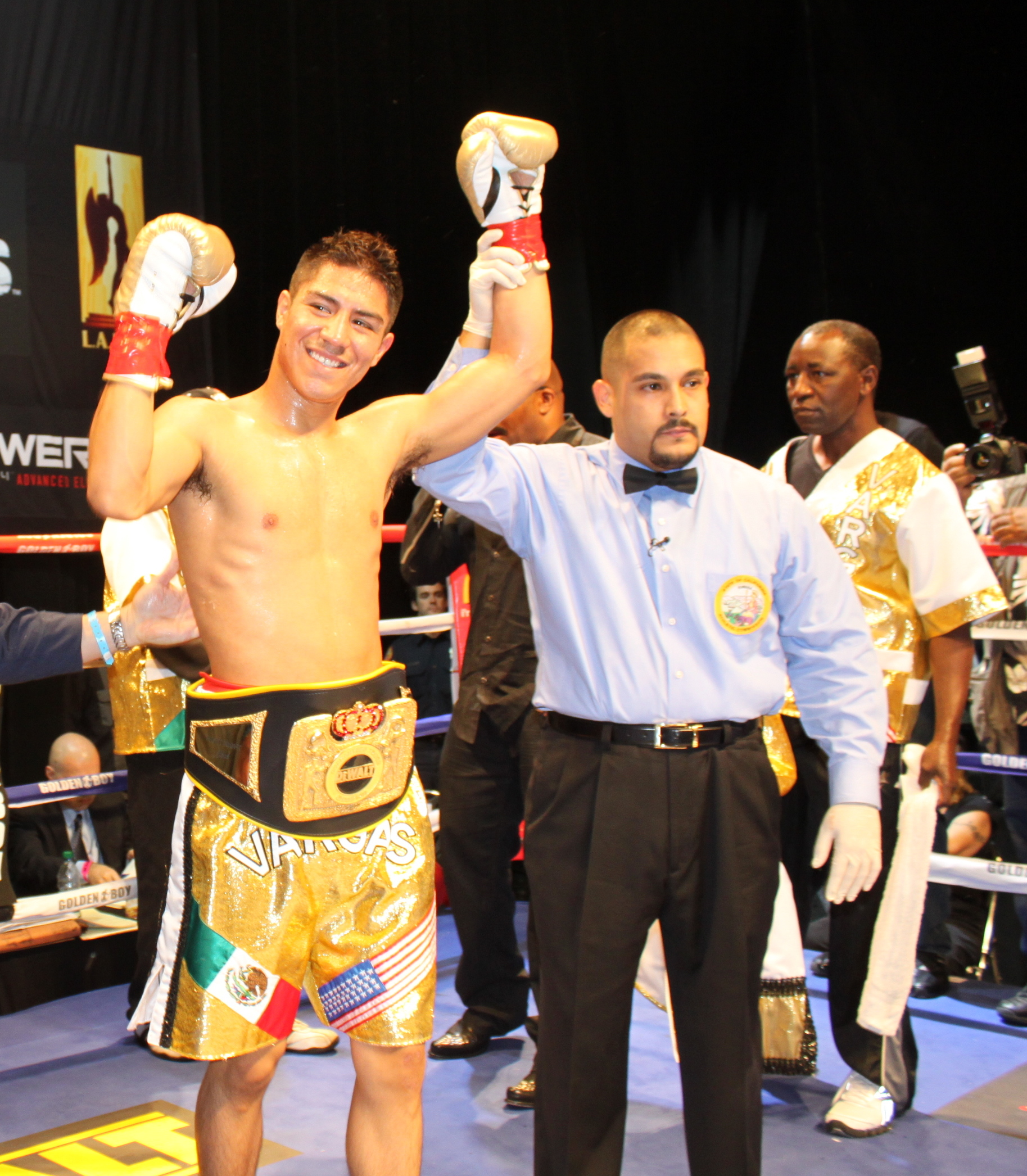 Jessie Vargas at Fight Night Club event at the Club Nokia in Los Angeles, California, United States.